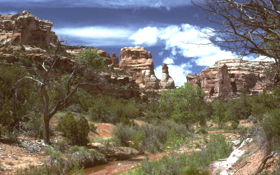 Arch Canyon, Utah, looking northwest